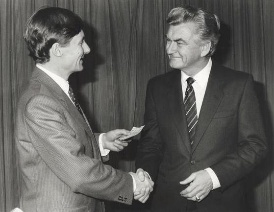 Premier of South Australia, John Bannon, receives cheque from Prime Minister of Australia, Bob Hawke, for bushfire relief.